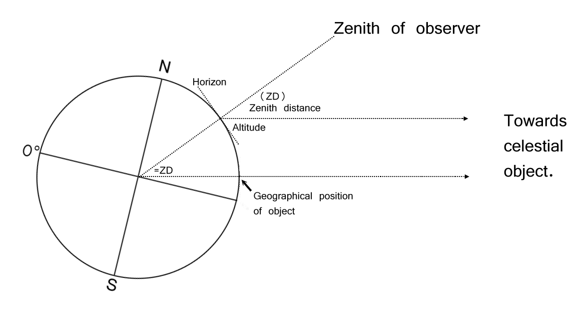 Diagram showing that the zenith distance of a celestial body is equal to the angular distance of the geographical position of the body from the observer.